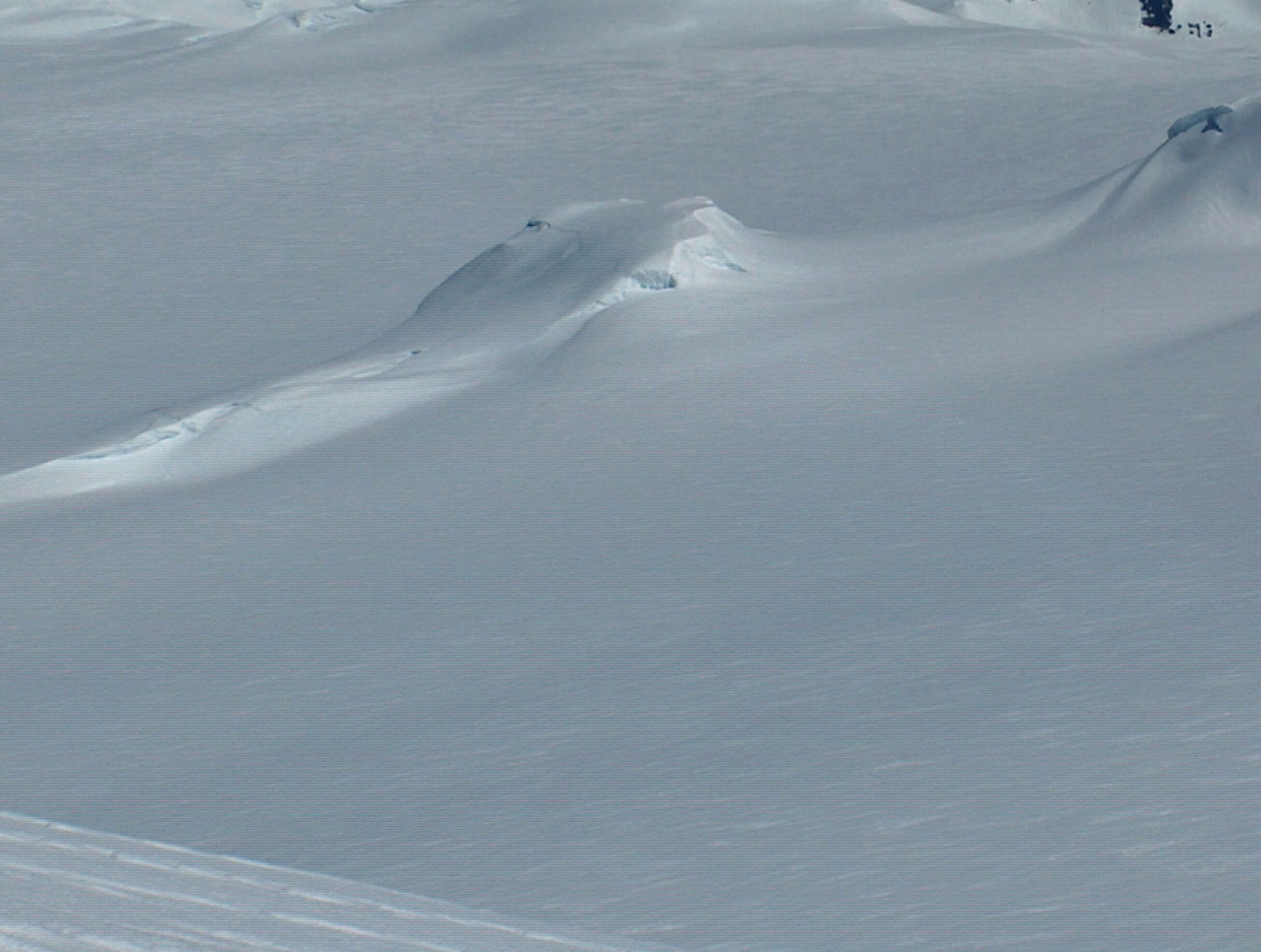 Castra Martis Hill in Vifin Heighta on Livingston Island, Antarctica.